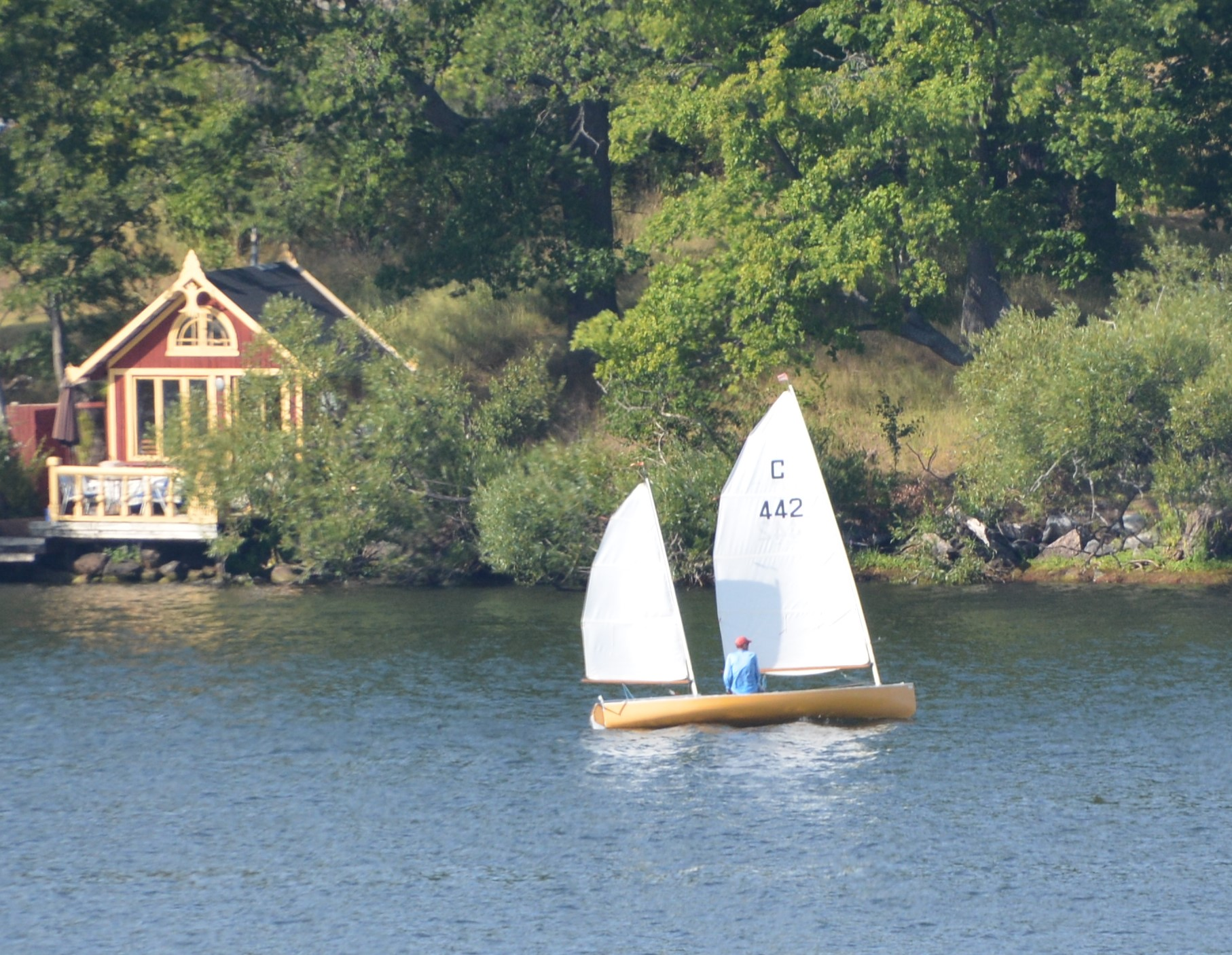 Sailing canoe, C type, with canoe rigging, lake Mälaren in Stockholm, Sweden